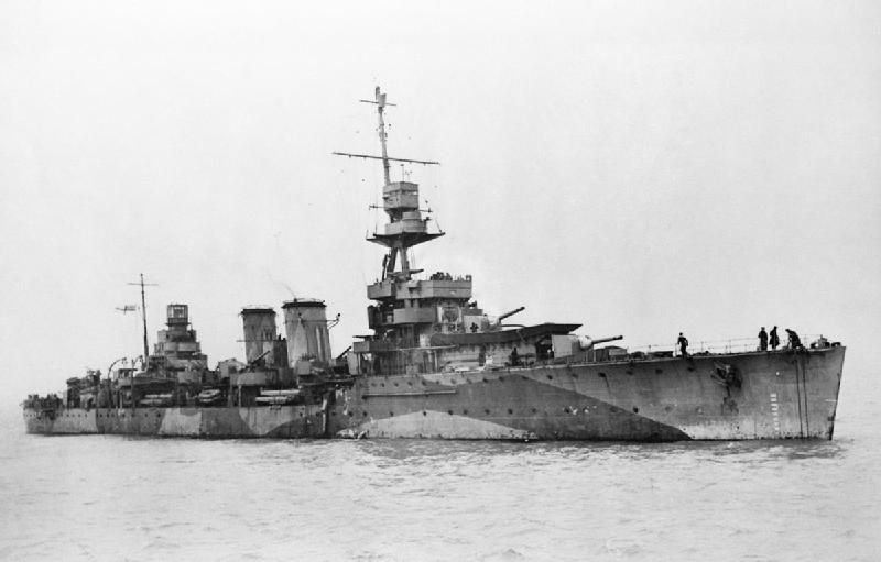 British light cruiser HMS DAUNTLESS underway.